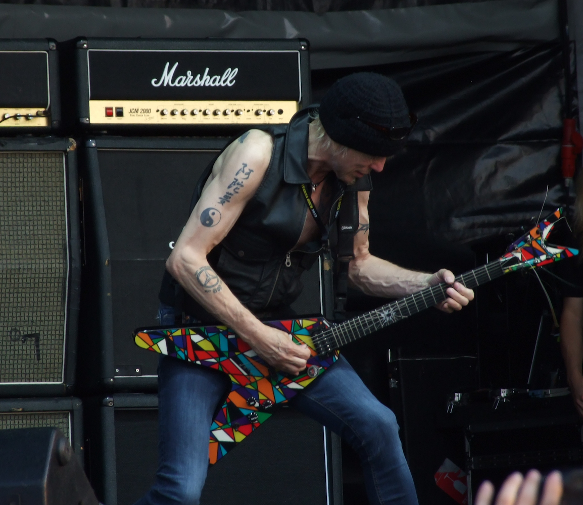 The German guitarist Michael Schenker performing with his band at Kavarna Rock Fest 2012, Bulgaria.